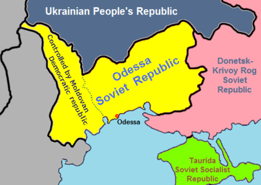 Territory claimed by Odessa's Soviet Republic in early March, 1918